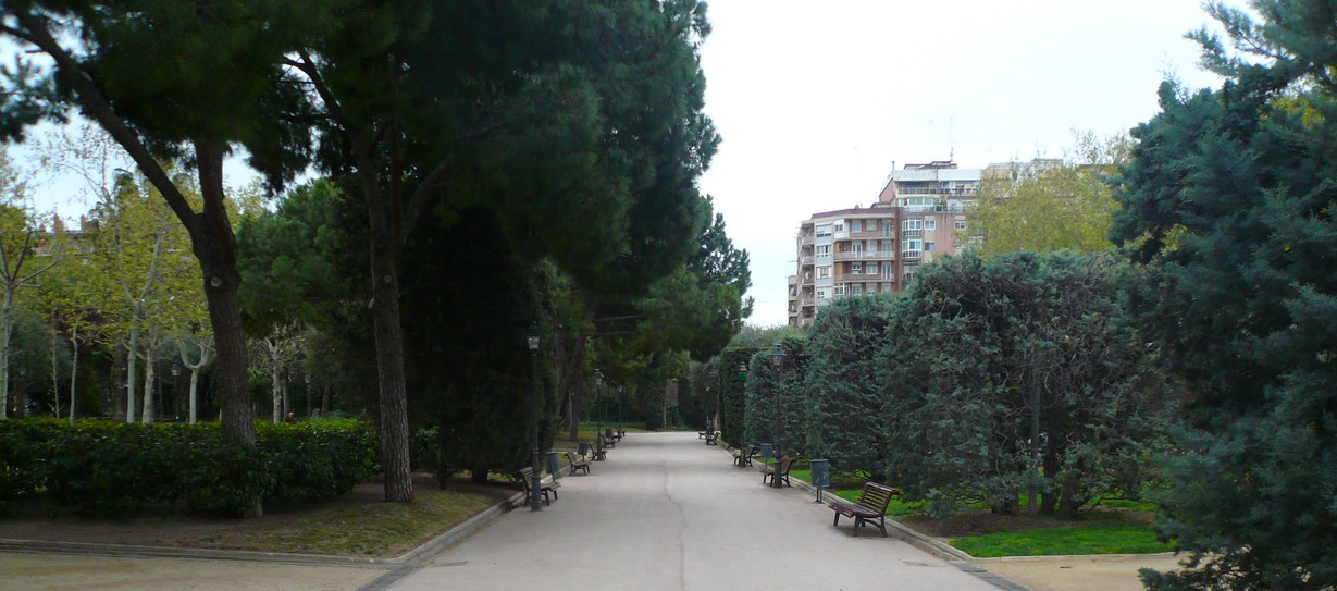 Can Boixeres, l'Hospitalet de Llobregat, Catalonia.